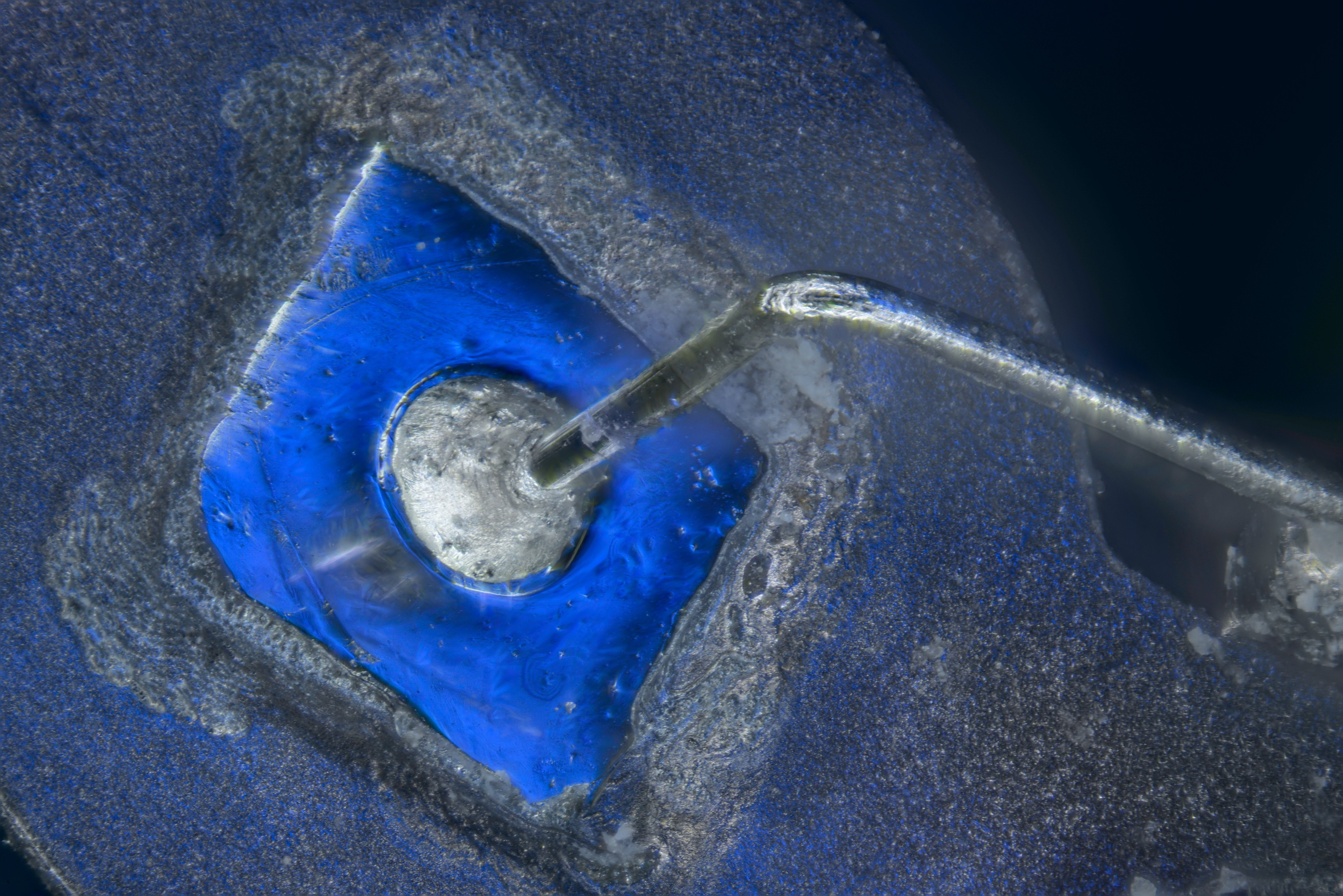 Closeup of the junction in a 2N140 germanium alloy junction transistor. This transistor was introduced by RCA in 1953 (in a TO140 package), and was their first high frequency transistor suitable for usage in the IF stage of an AM radio. The crystal is reflecting a blue light; it would naturally be silver colored. This picture is focus-stacked from 312 pictures, using a 10x microscope objective